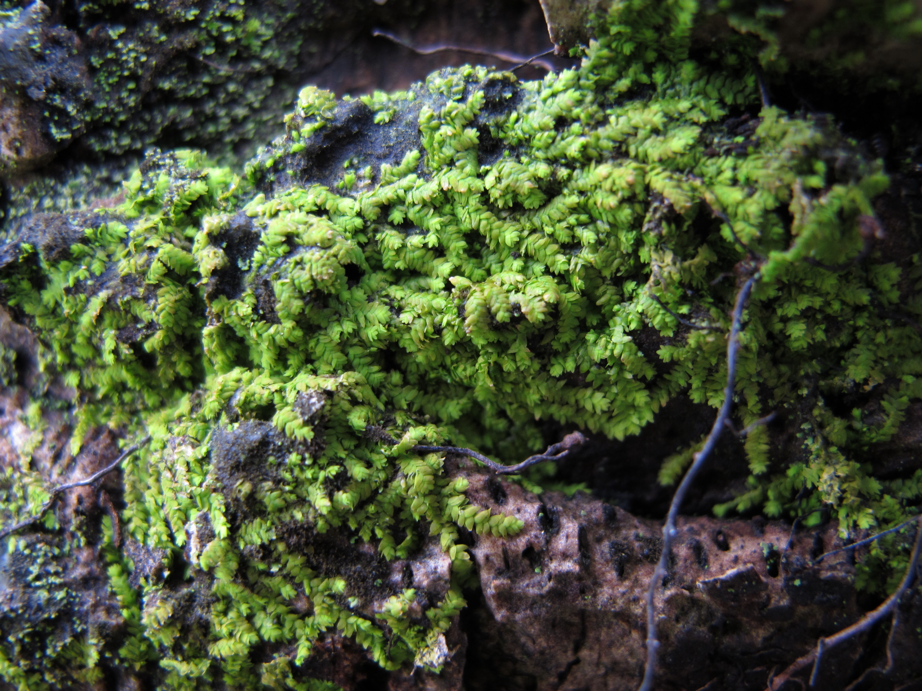 epiphytic on the trunks of Phoenix dactylifera, Florida International University campus, Miami, Florida, USA. This is the first record of this species from the state of Florida (and only the second USA record [the first was from Texas]). The identity of the moss was confirmed by bryologist Ron Pursell, Penn. State Univ.